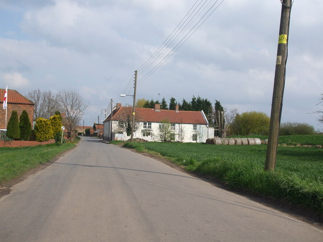 Entering Kelfield